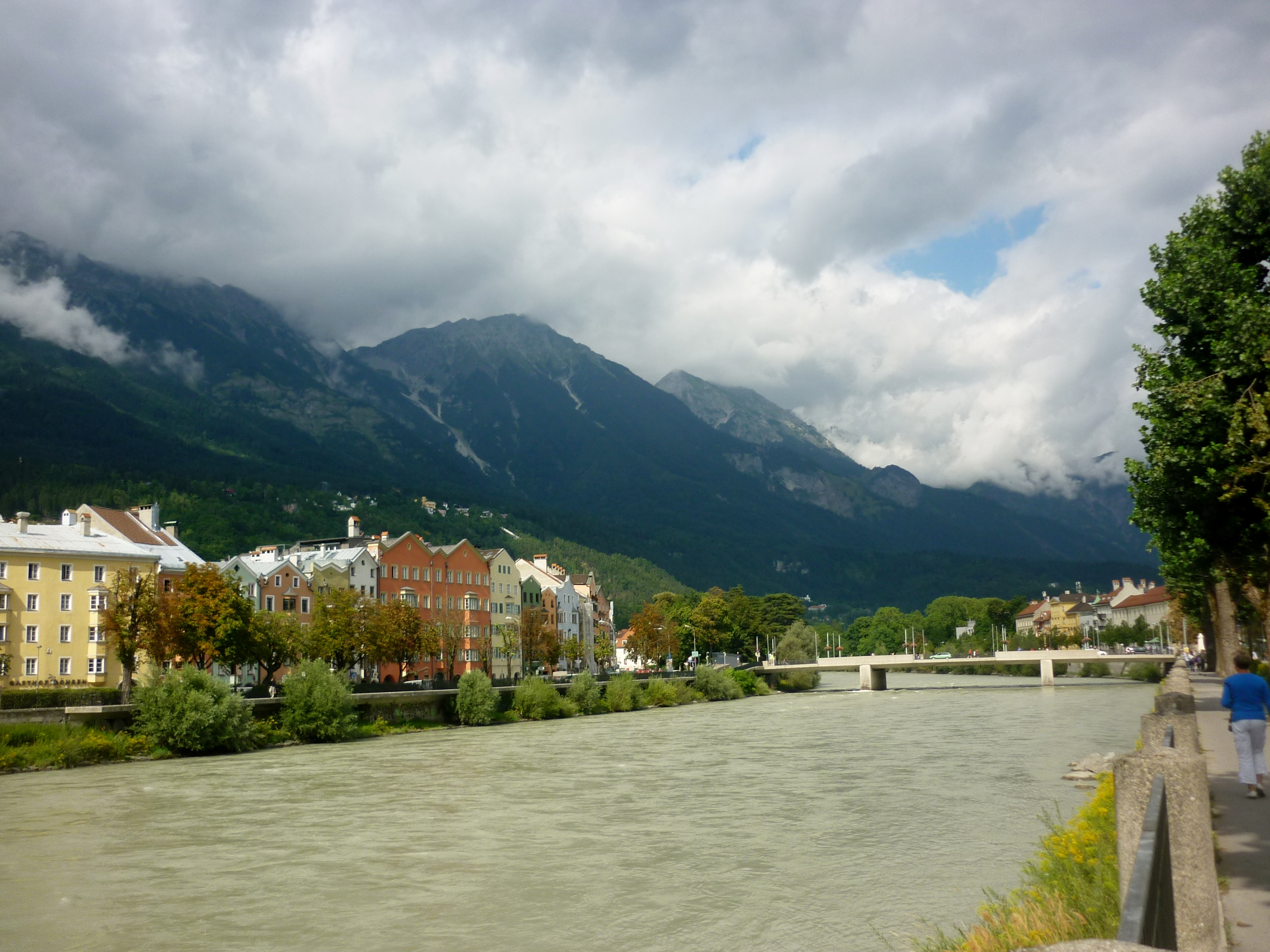 Inn in Innsbruck